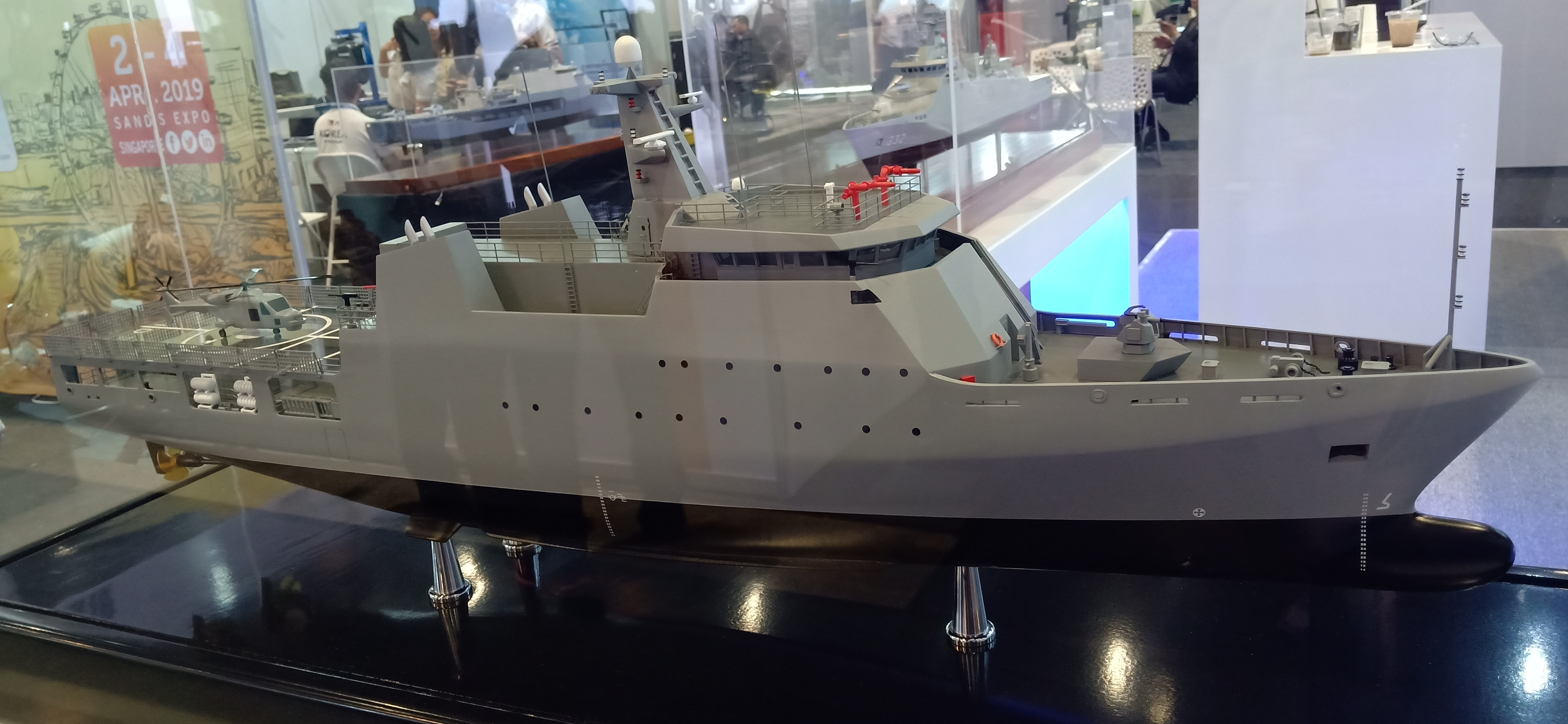 Front view of a scale model of an OPV-1800 vessel made by the Dutch company Damen. Photo taken during the 2018 Asian Defence and Security (ADAS) Trade Show at the World Trade Center in Pasay, Metro Manila.